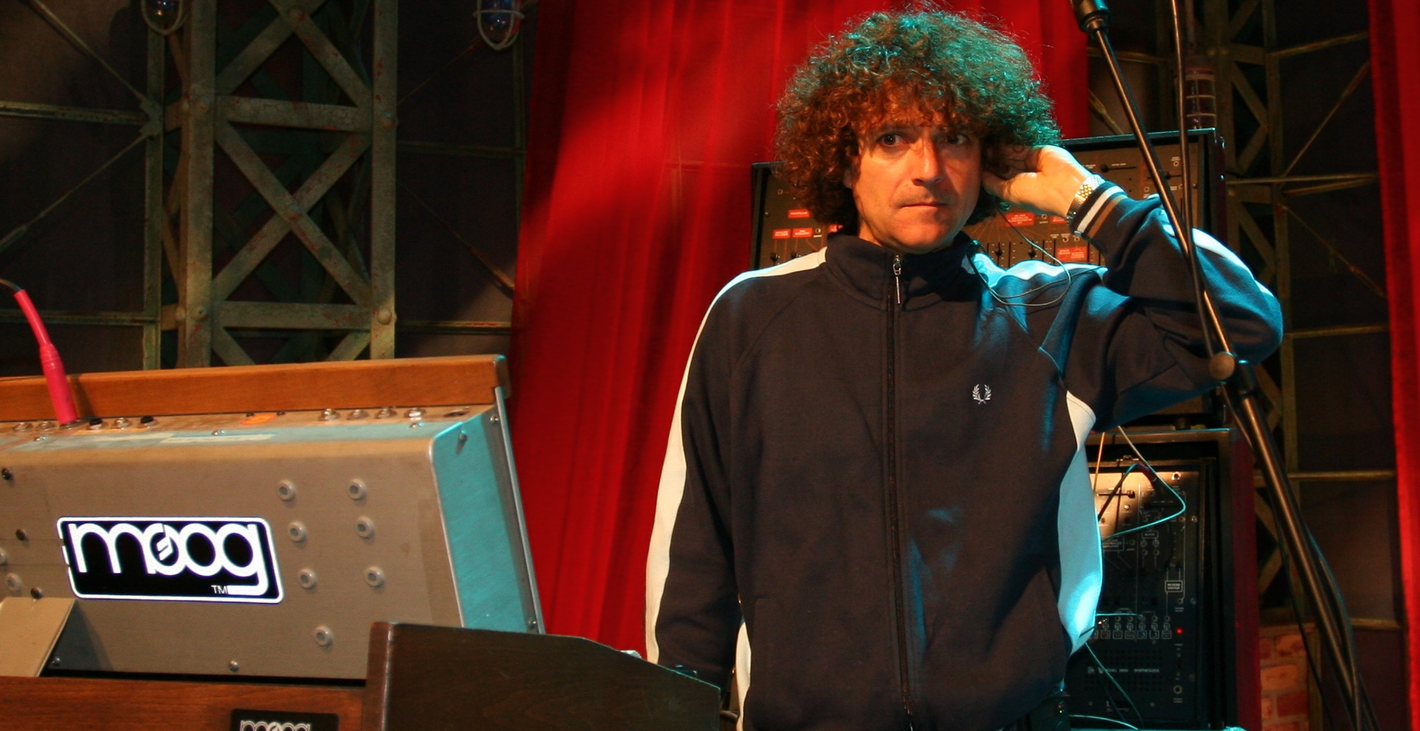 Anthony Marinelli performs his remix of the classic "Love Potion #9" from the album "Whipped Cream & Other Delights Rewhipped" with Herb Alpert featuring Ozomatli.